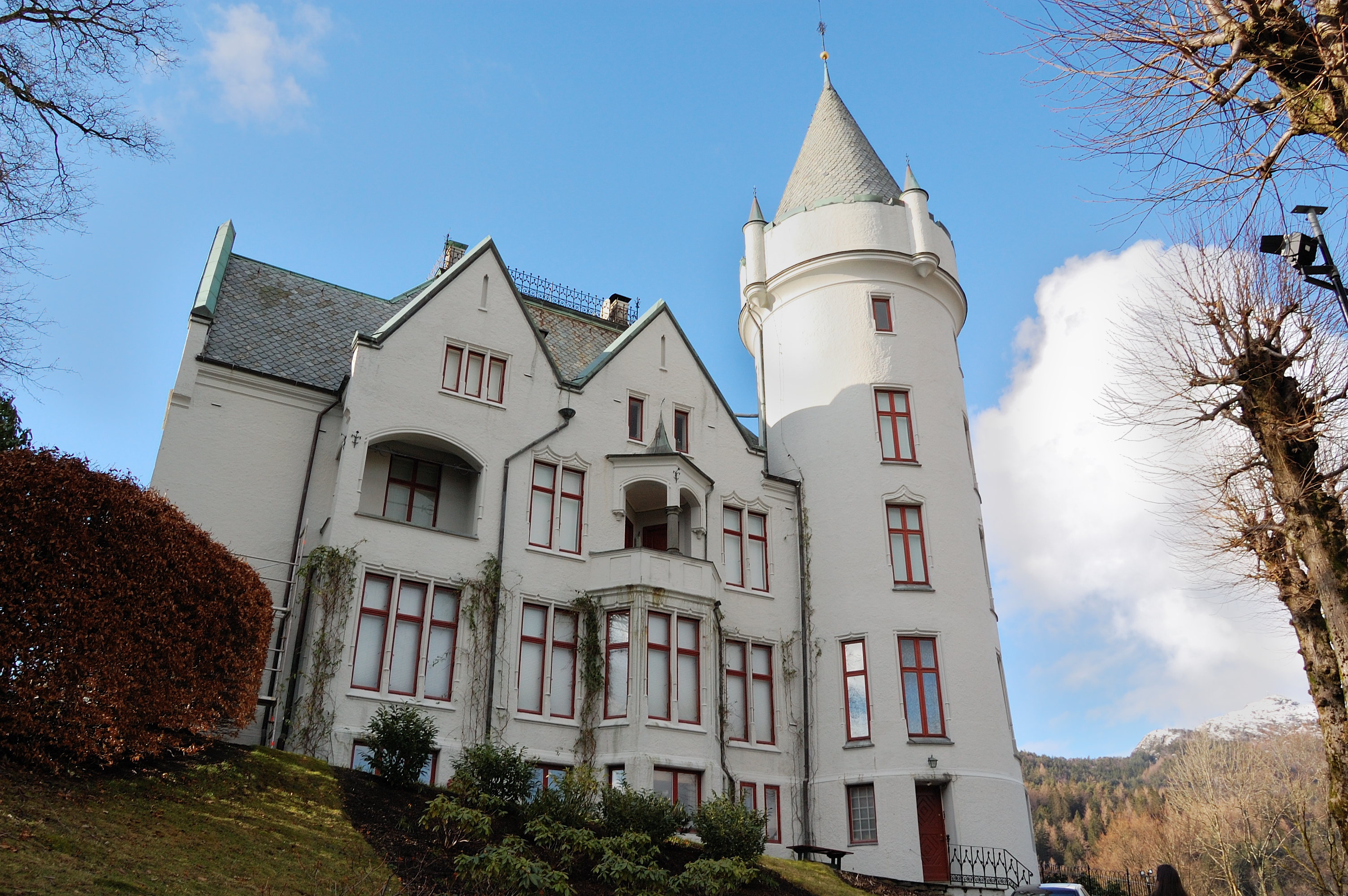 Norwegian Royal Family's mansion "Gamlehaugen" in Bergen, Norway.